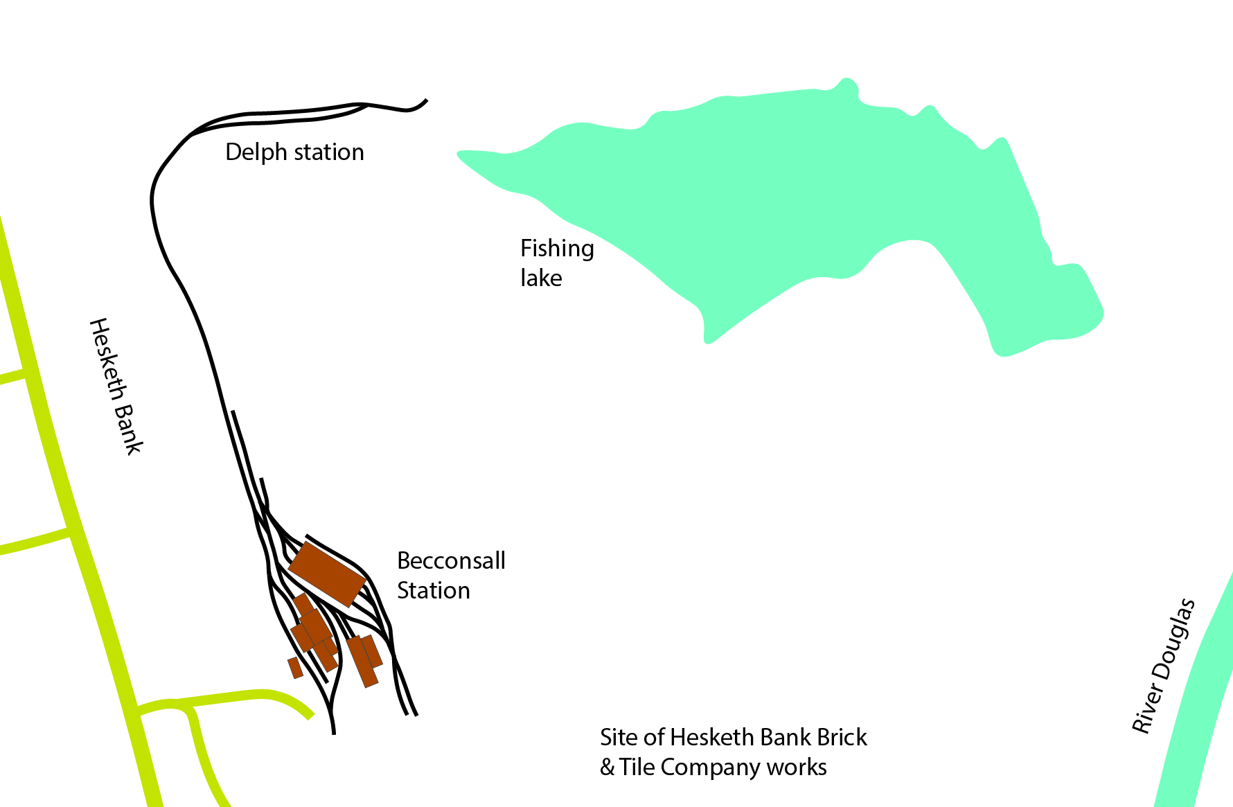 A map of the West Lancashire Light Railway in 2017, drawn from aerial photography and contemporary maps